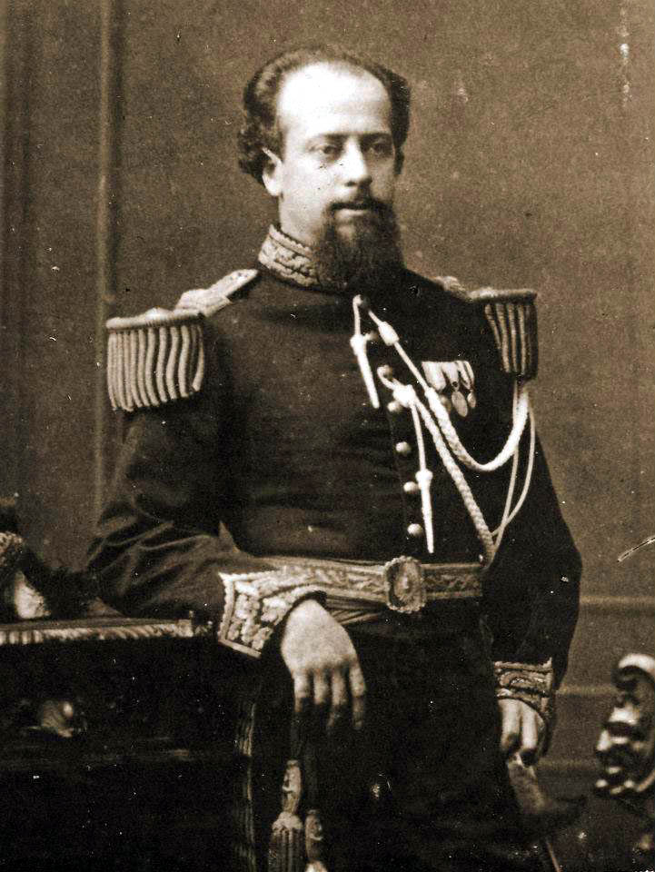 General Julio A. Roca at the end of 1870's decade. He governed Argentina for two periods: 1880-1886 and 1898-1904.